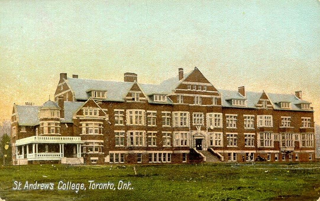 Postcard of St. Andrew's College, Toronto, Canada.